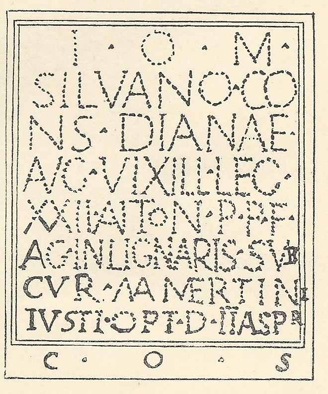 Inscription of the Roman sacrificial stone in Trennfurt from the year 212 (CIL XIII 6618)